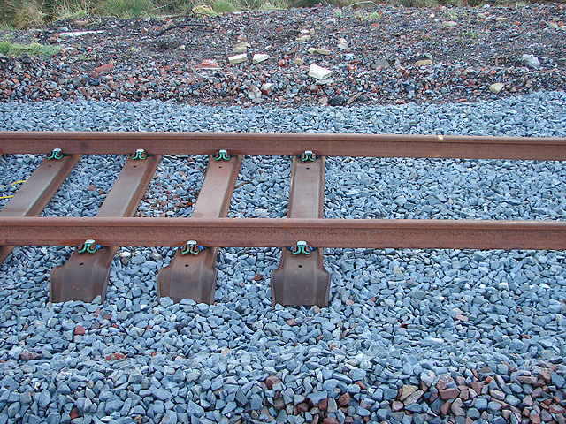 Steel sleepers at Dovey Junction. During track renewals on the Cambrian lines, the rails of ordinary track are now mostly laid on steel sleepers (except for point-work - see 1083540). That also applies to the new passing loop at Dovey Junction, as seen here. There was once an issue with steel sleepers in that they were unable to be used where speeds exceeded 60 mph because they provided no damping and all forces were transmitted to the underlying ballast. Improvements in the design of the sleepers themselves, the track fixings and the insulation pads between the rails and the sleepers appear to have overcome these problems. It is now suggested that their use could provide track maintenance economies on even the most heavily used and fastest routes in the UK. The maximum speed on the Cambrian routes is 90 mph. The track in the picture has not yet been fully ballasted, that will be done once the loop is complete. The ballast will then be level with the top of the sleeper.